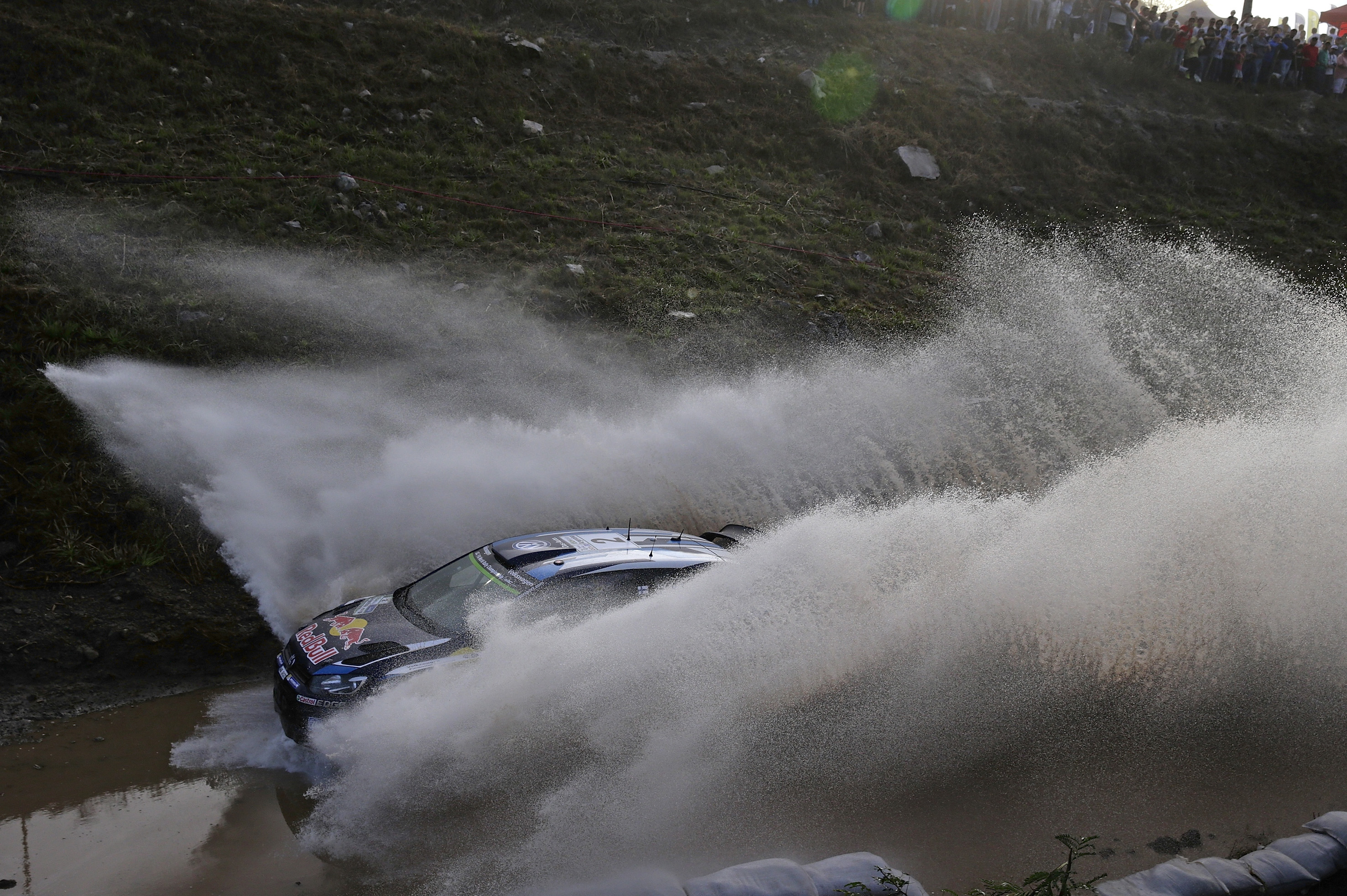 Jari-Matti Latvala and co-driver Miikka Anttila in their VW Polo R WRC at the 2015 Rally Argentina.